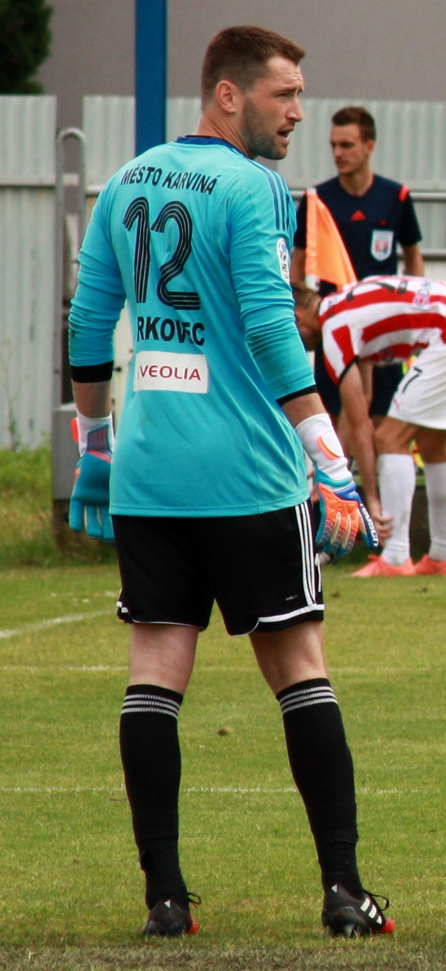 Czech association football goalkeeper Martin Berkovec (MFK Karviná) vs. Cracovia Kraków at a friendly match played on 23 June 2018